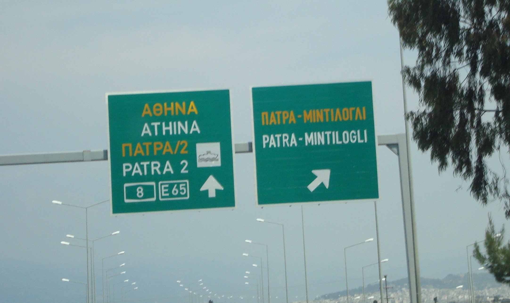 Road signs in Patras